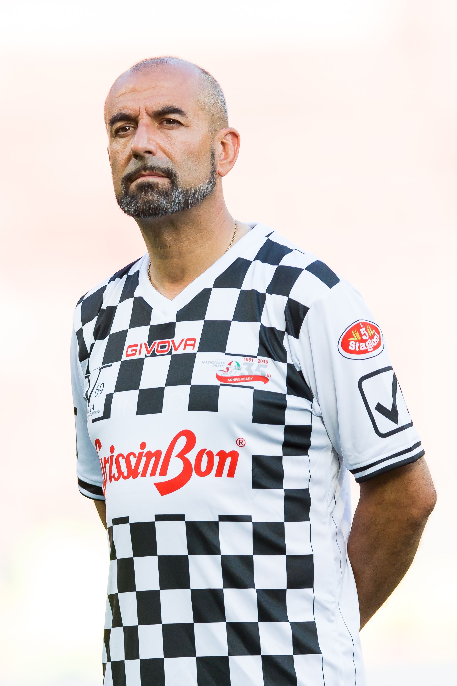 during football match between Nowitzki All Stars and Nazionale Piloti in honor of Michael Schumacher at Opel Arena, Mainz, Rheinland Pfalz, Germany on 2016-07-27, Photo: Sven Mandel